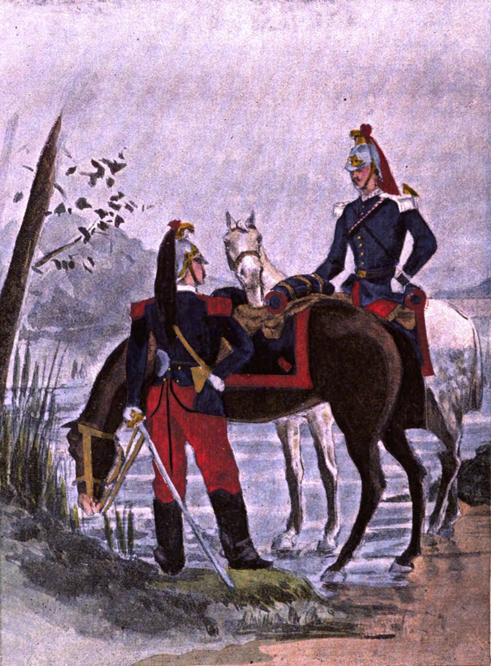 A trumpeter and a sous-officier of the 2e Régiment de Dragons in 1873